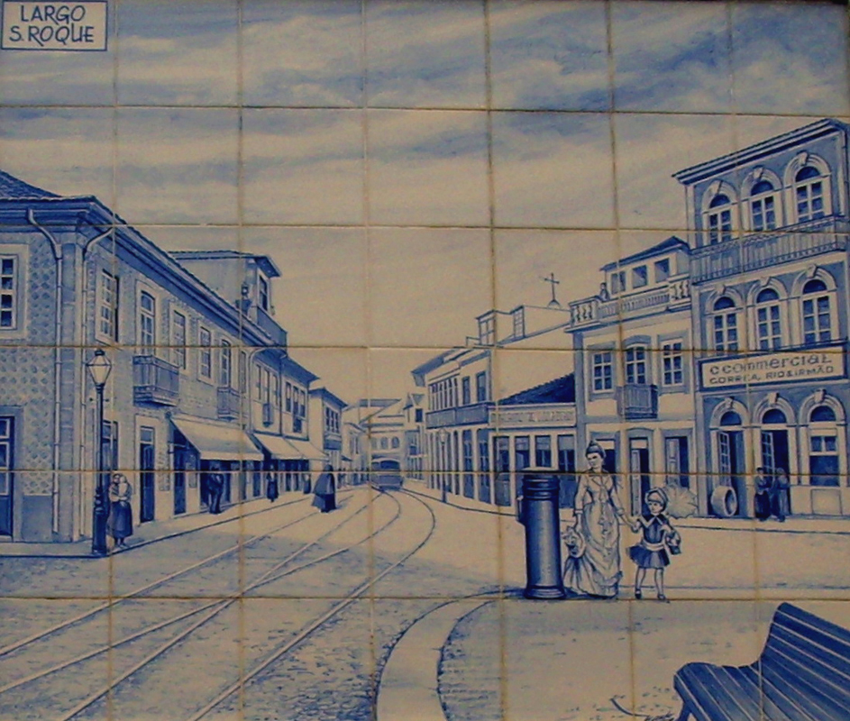 Sao Roque Square (Republica Square) in Povoa de Varzim, Portugal